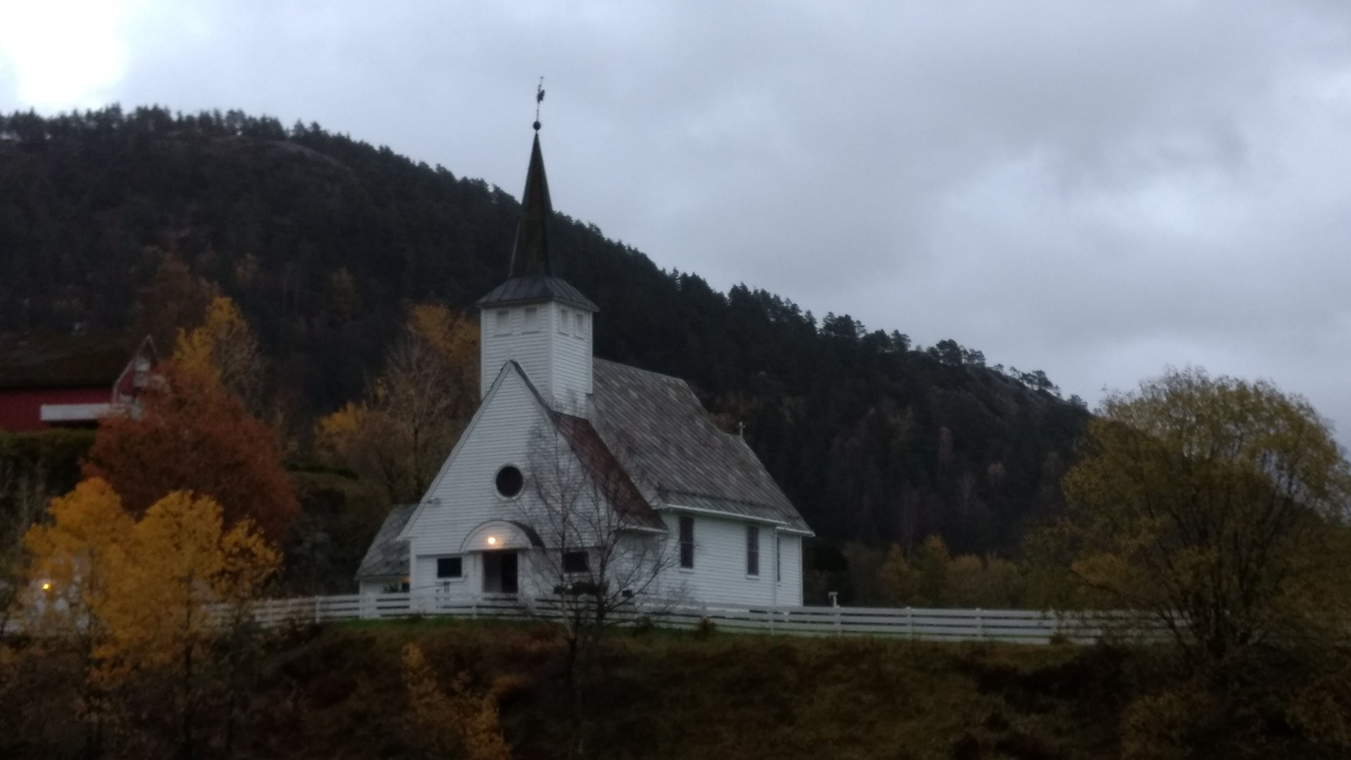 Frøyset church in Masfjorden, Hordaland, Norway